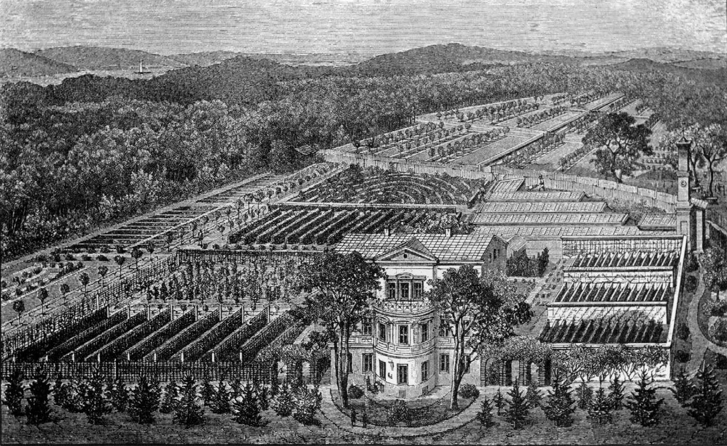 Royal Gardeners’ School Potsdam-Wildpark